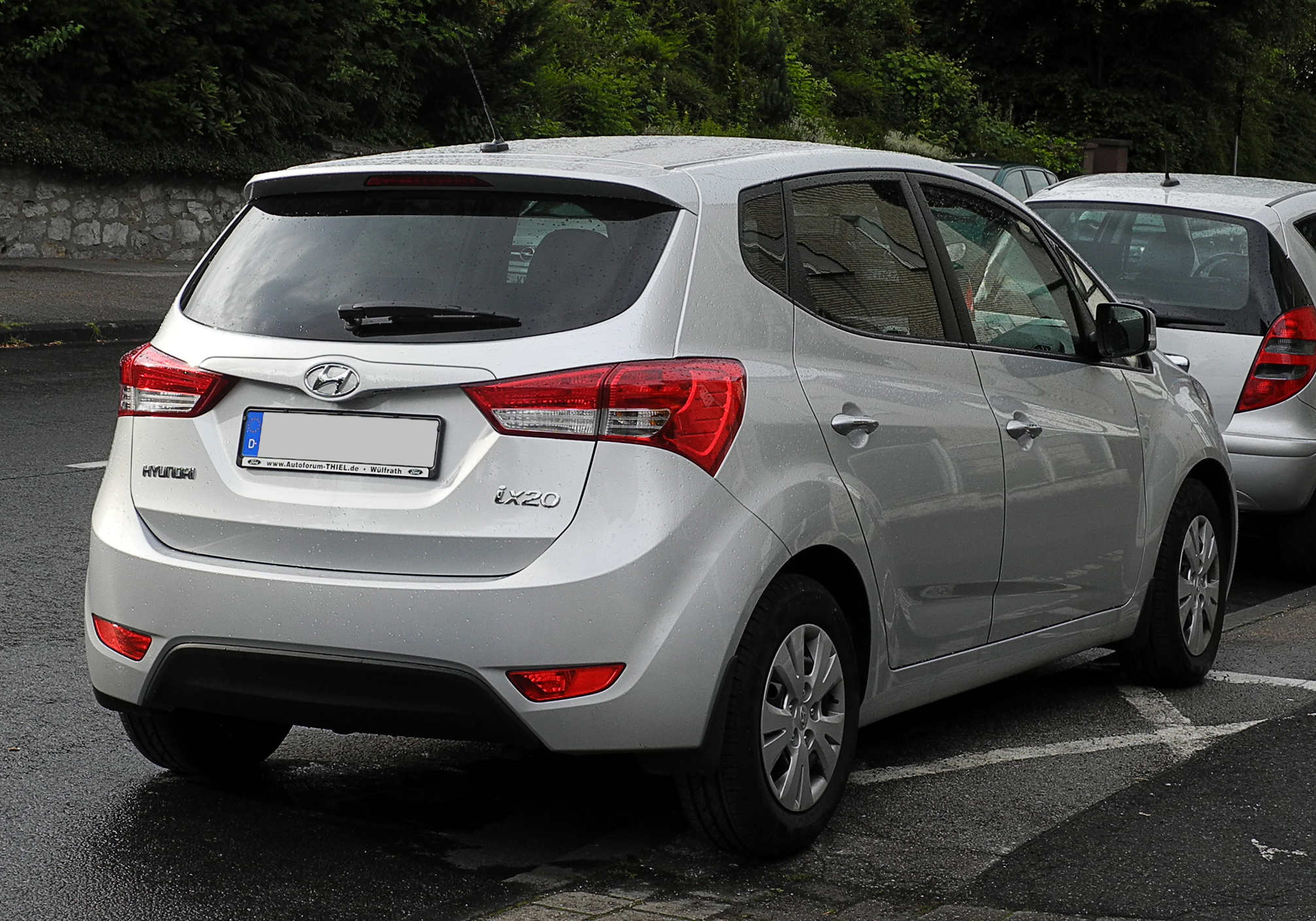 Hyundai ix20 Comfort